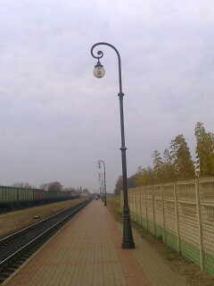 Lantern on a platfom